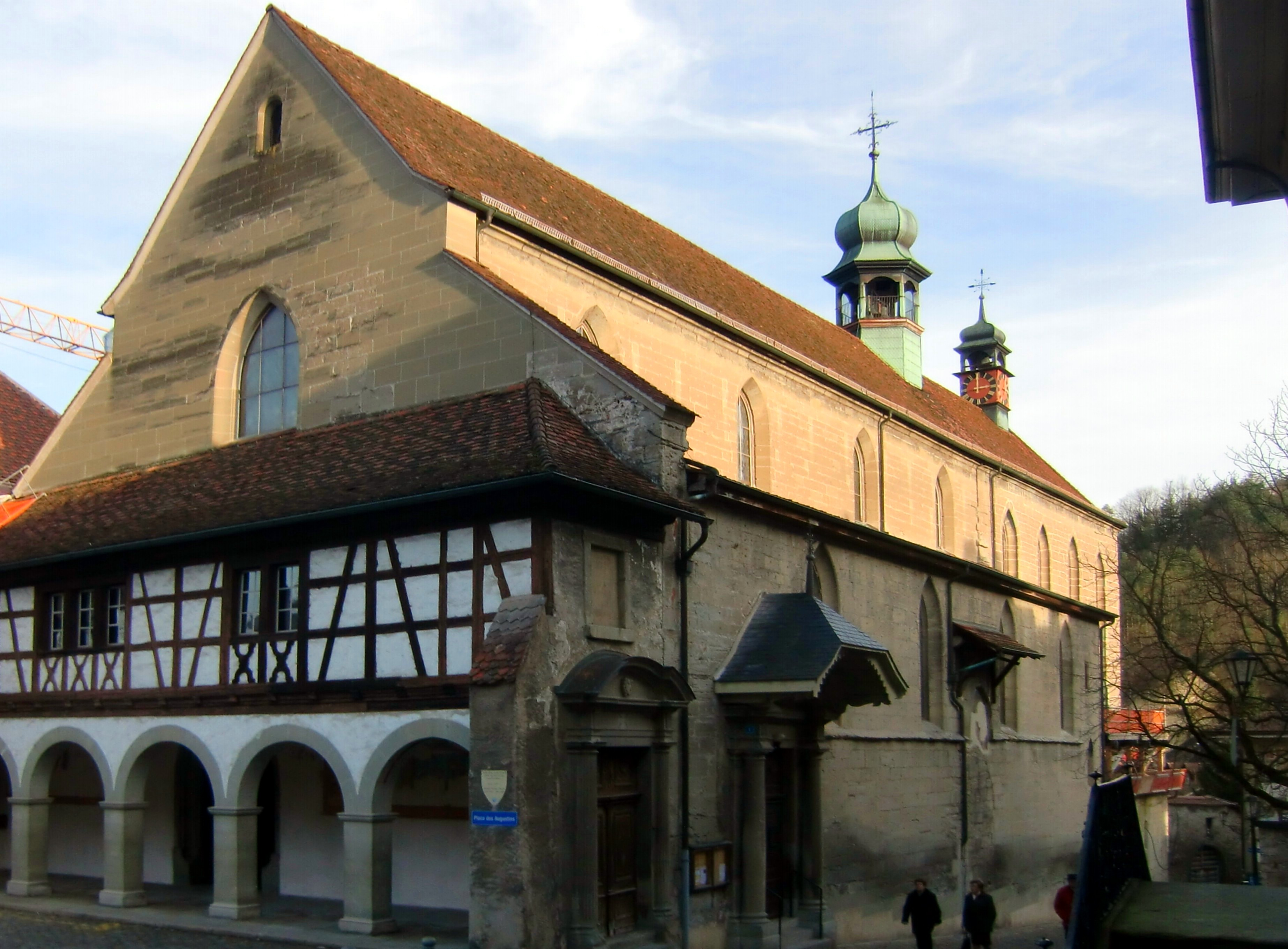 The Augustins church dediated to Saint Maurice, Fribourg (CH)